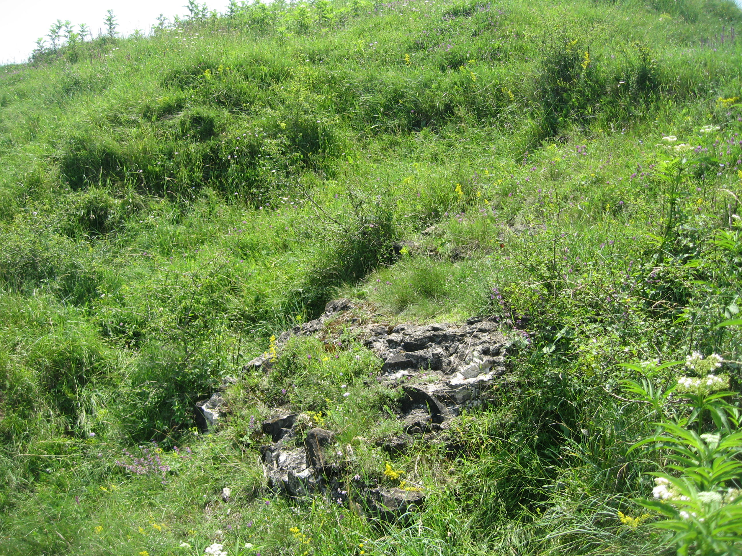 Șcheia Fortress (The Western Fortress of Suceava).